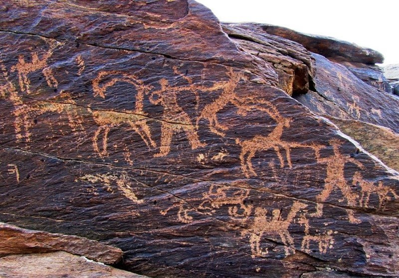 سنگ نگاره های سراوان بلوچستان مربوط به هزاره های قبل از میلاد